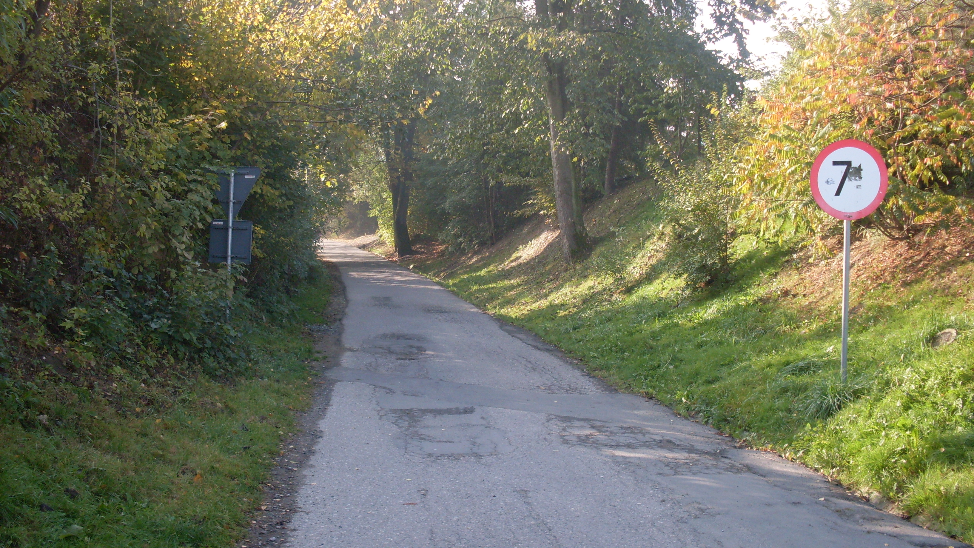 Kleszczów